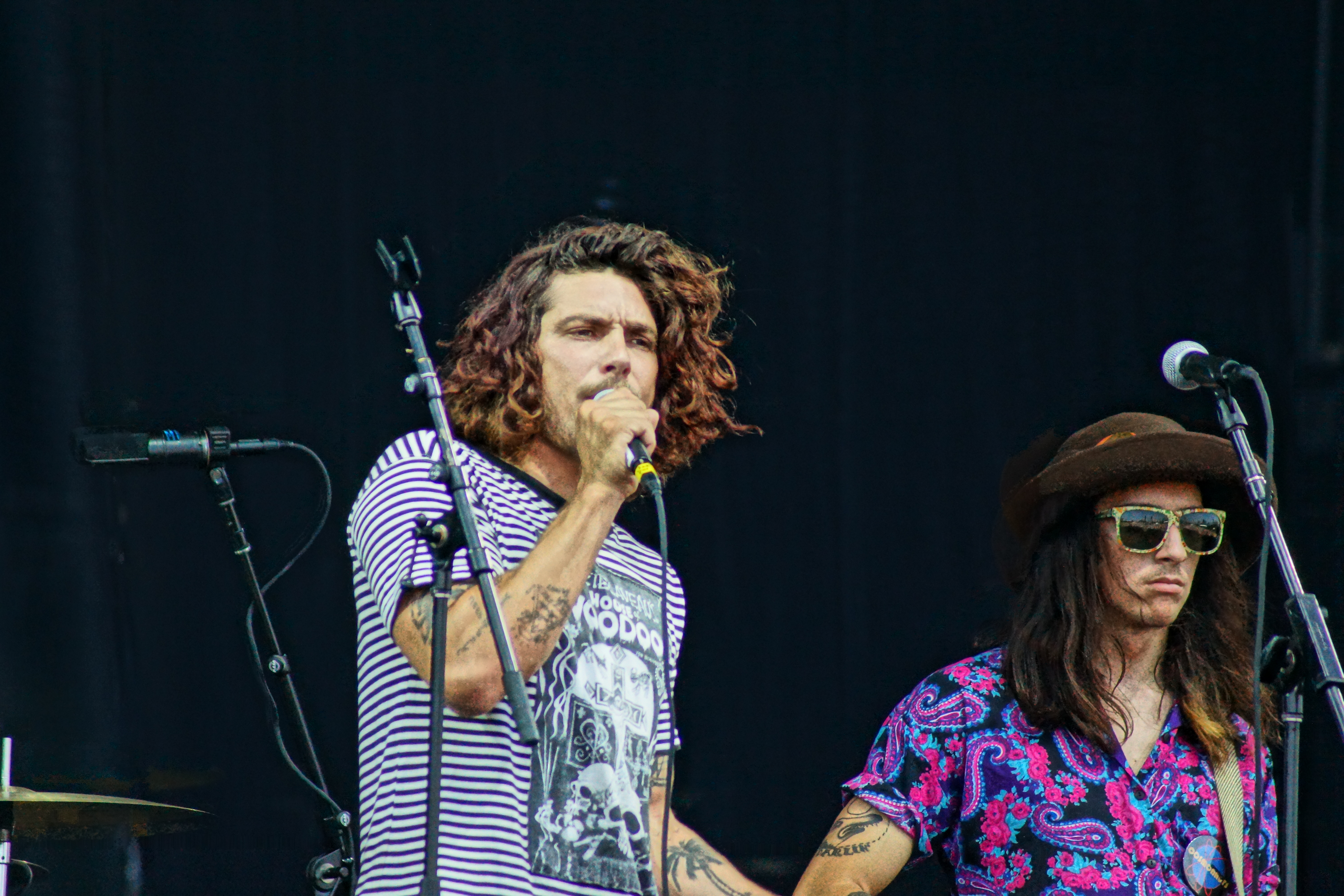 Brooks and Anthony of The Growlers playing at Lollapalooza 2012